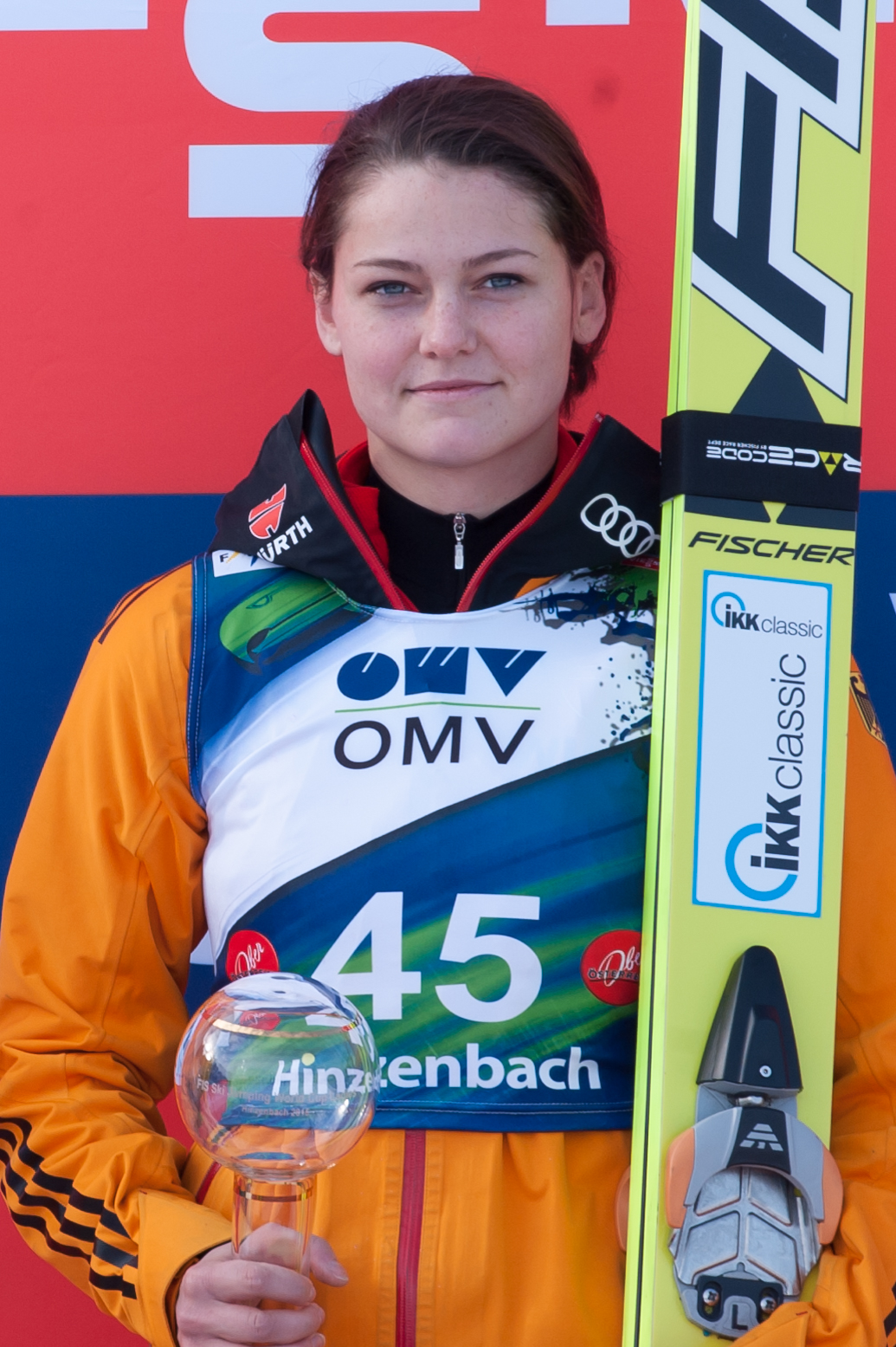 FIS Ski Jumping World Cup Hinzenbach Sun 1 Feb 2015